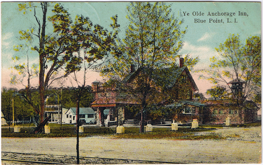 Matte color postcard of Ye Olde Anchorage Inn, Blue Point, Long Island, New York. Back reads, "Printed in Germany. Publ. for R. L. Moore, Blue Point, L. I."